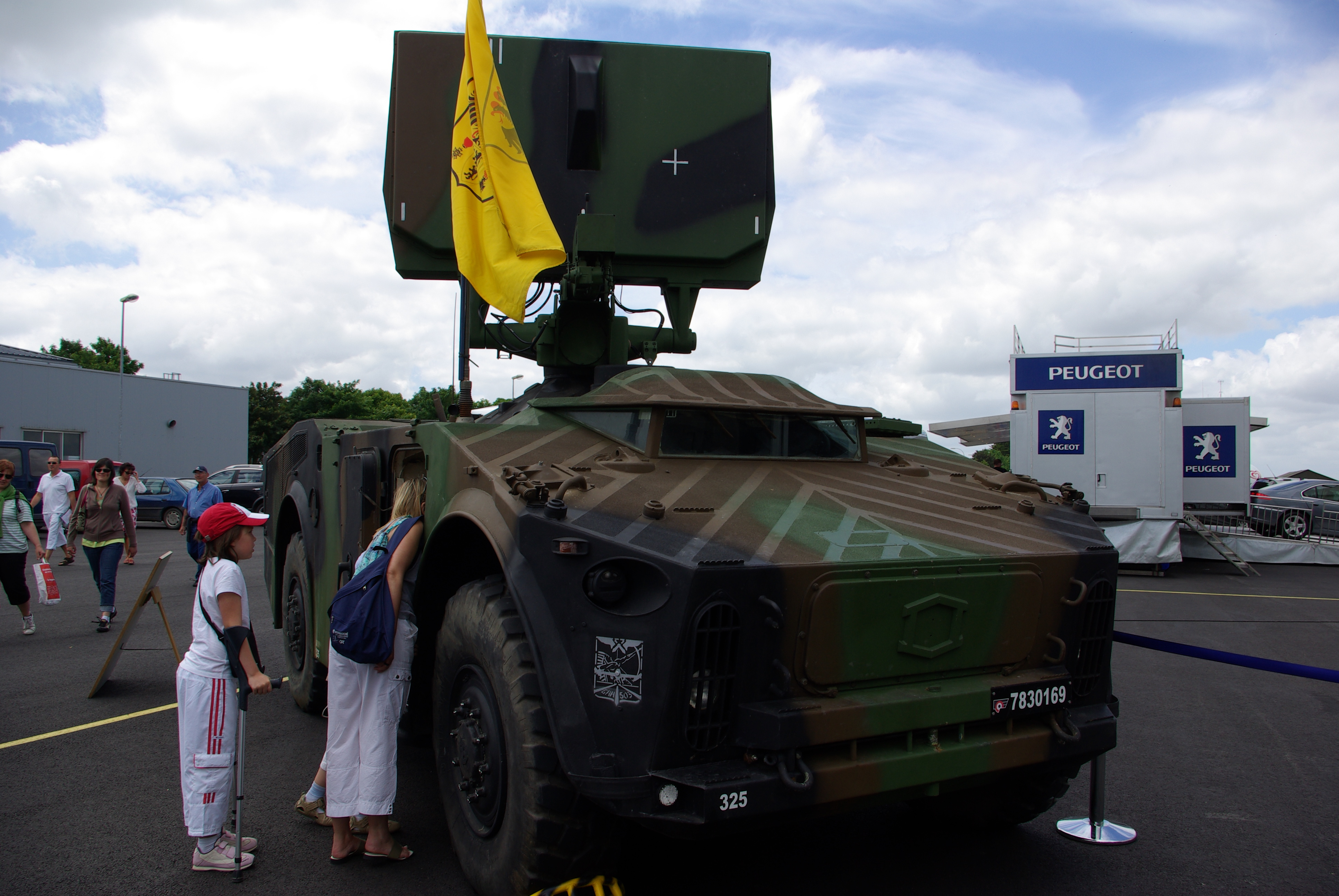 Acquisition unit for Crotale missile